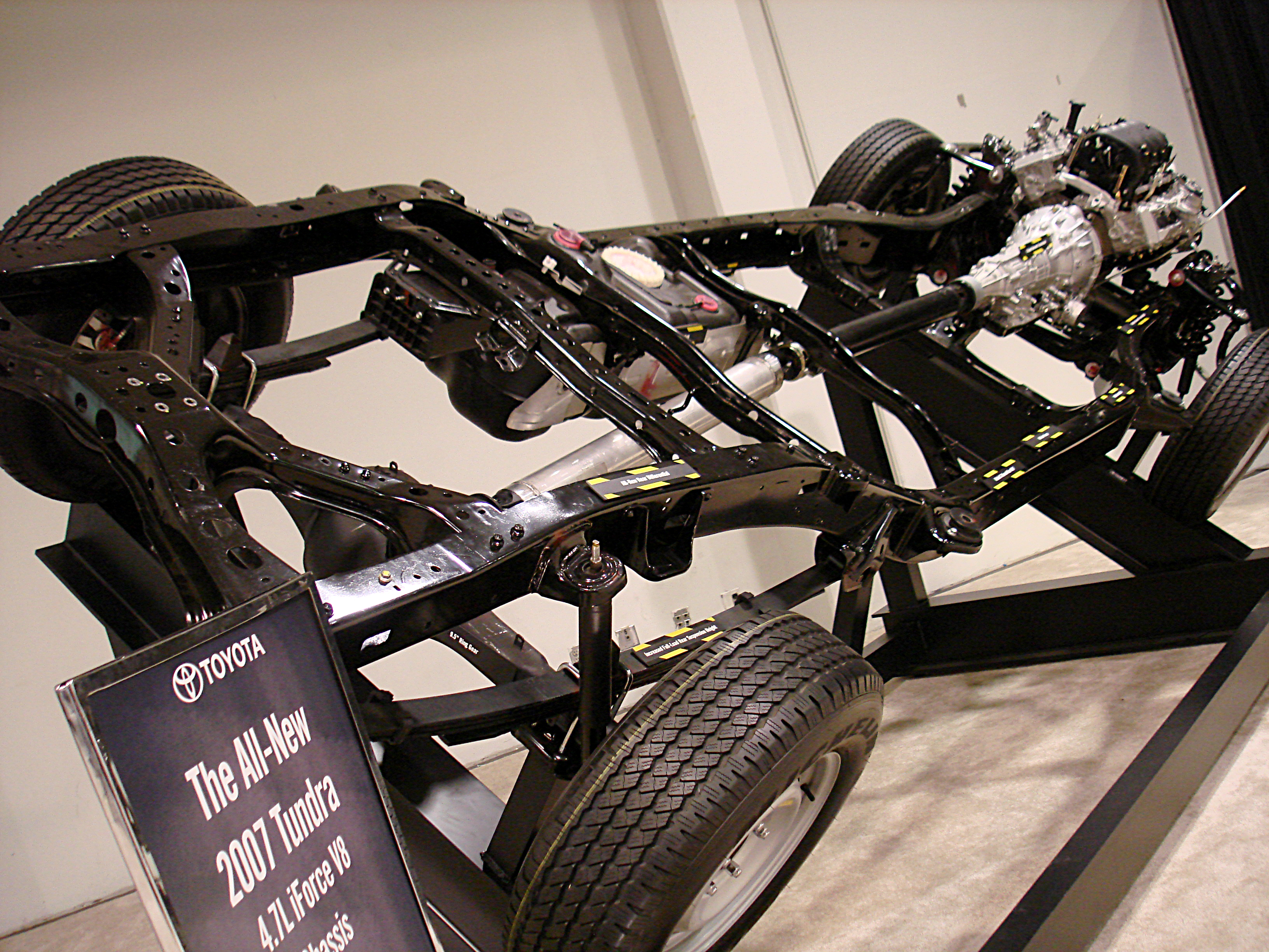 2007 Toyota Tundra chassis on the 2006 OC Auto Show